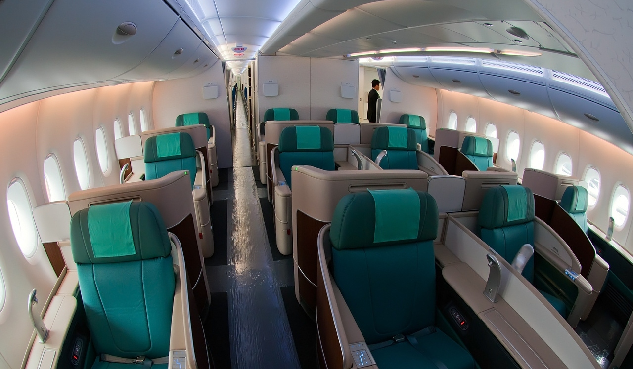 First class cabin in 2nd A-380 for Korean Air. Paris Air Show 2011.